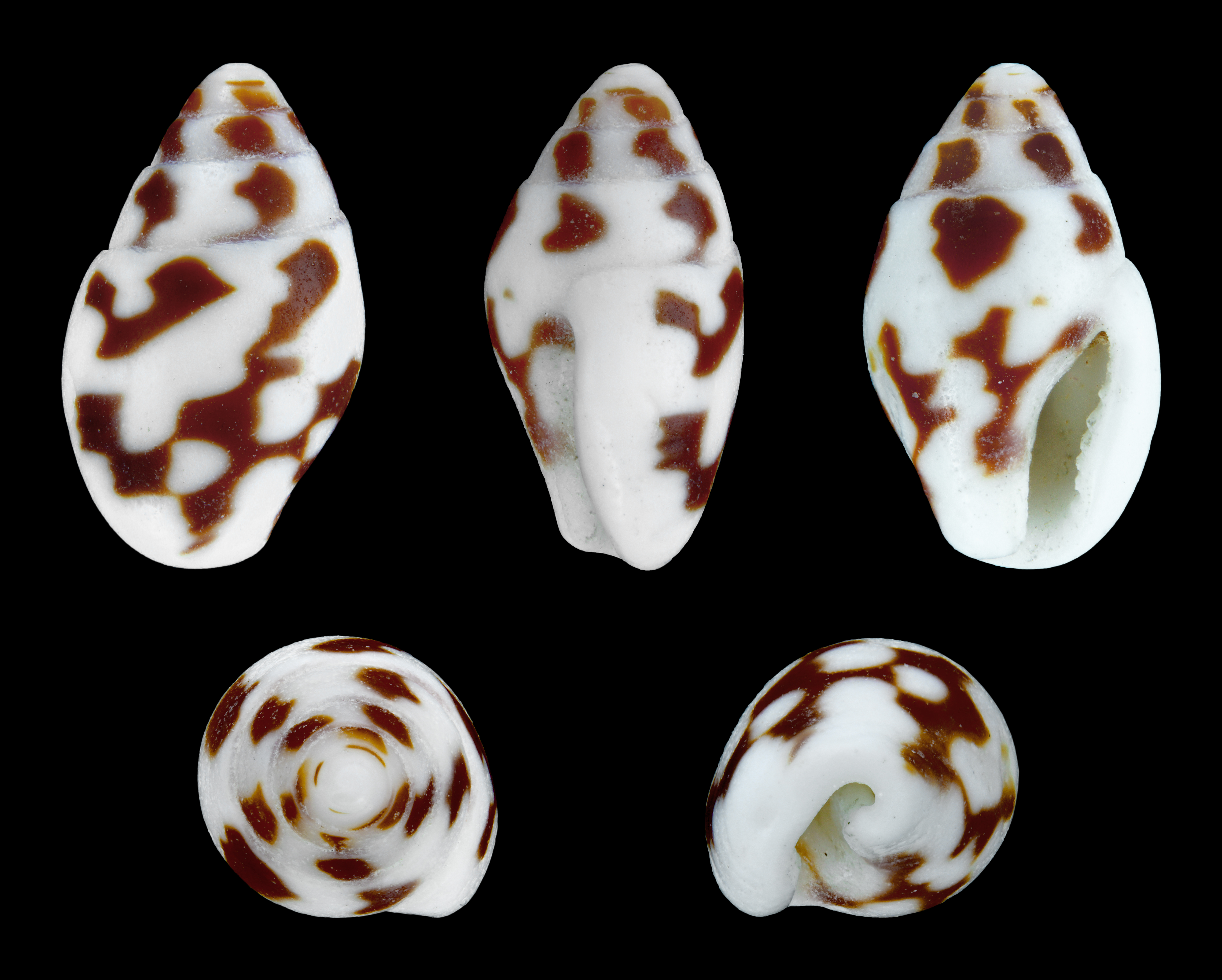 Tortoise Dove Shell; Length 1.4 cm; Originating from from the Artistic Beach Resort, Sipalay, West-Negros, Philippines; Shell of own collection, therefore not geocoded. Dorsal, lateral (right side), ventral, back, and front view.